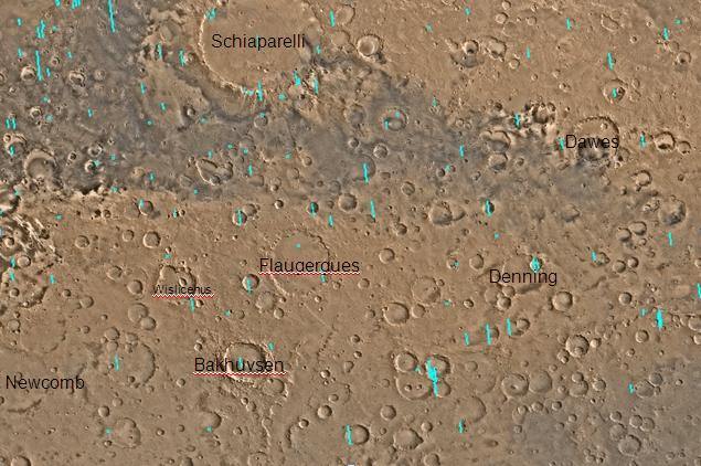 Map of Sinus Sabaeus quadrangle with major craters labeled. The small, colored rectangles represent image footprints for the narrow angle camera on the Mars Global Surveyor. Some are about 1 mile wide, the otheers are about 2 miles wide. The map was made by the U.S. Geological survey for NASA.